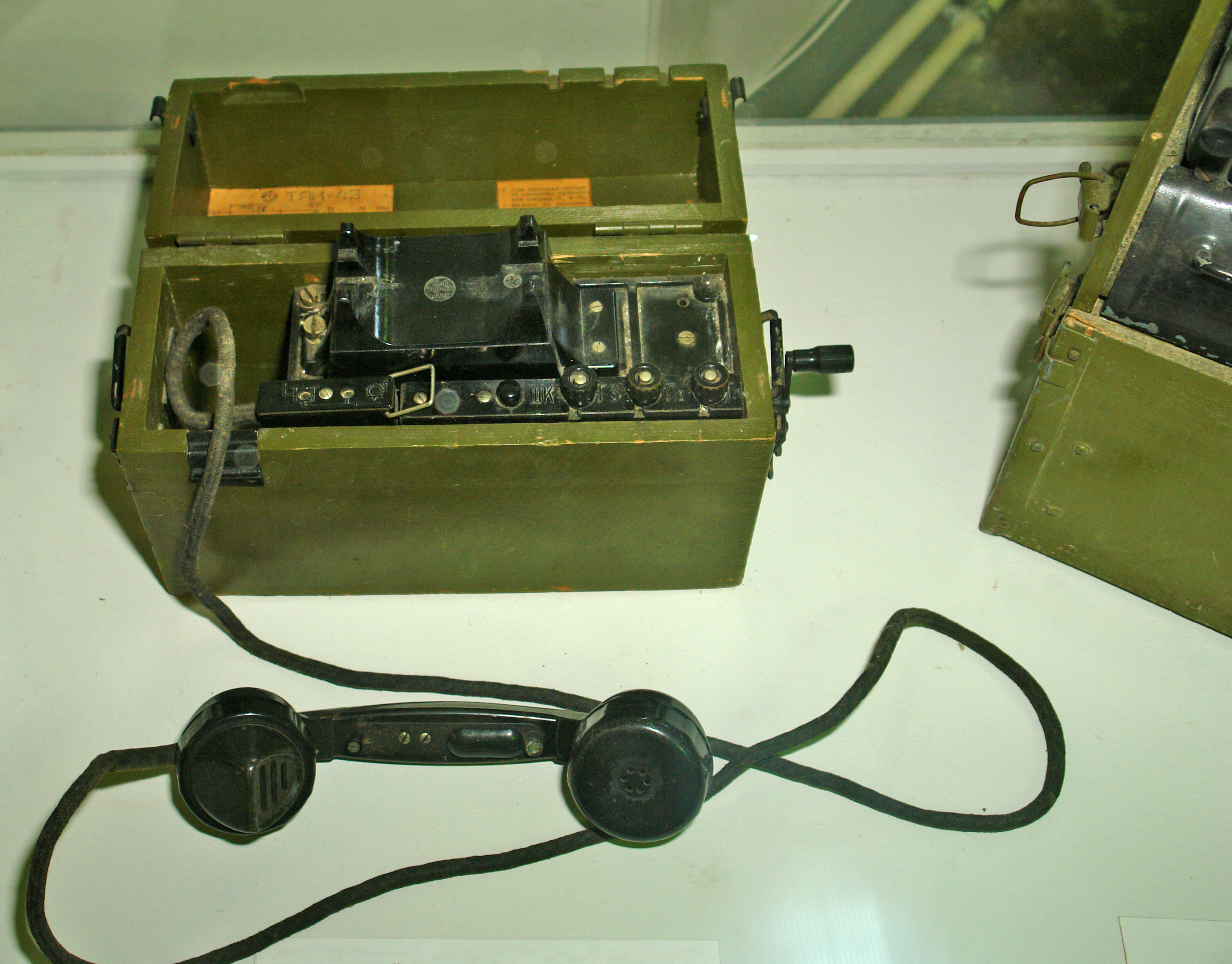 FIELD TELEPHONE SET TAI-43 Accepted for serial production as a single magneto telephone set. Designer: O.I. Repina. It served for communications at all levels of government. Range: on field cable-up to 25 km, on a continuous air lines to 200 km. Mass of apparatus with power source -- 5 kg. Military-historical Museum of Artillery, Engineer and Signal Corps, St. Petersburg.